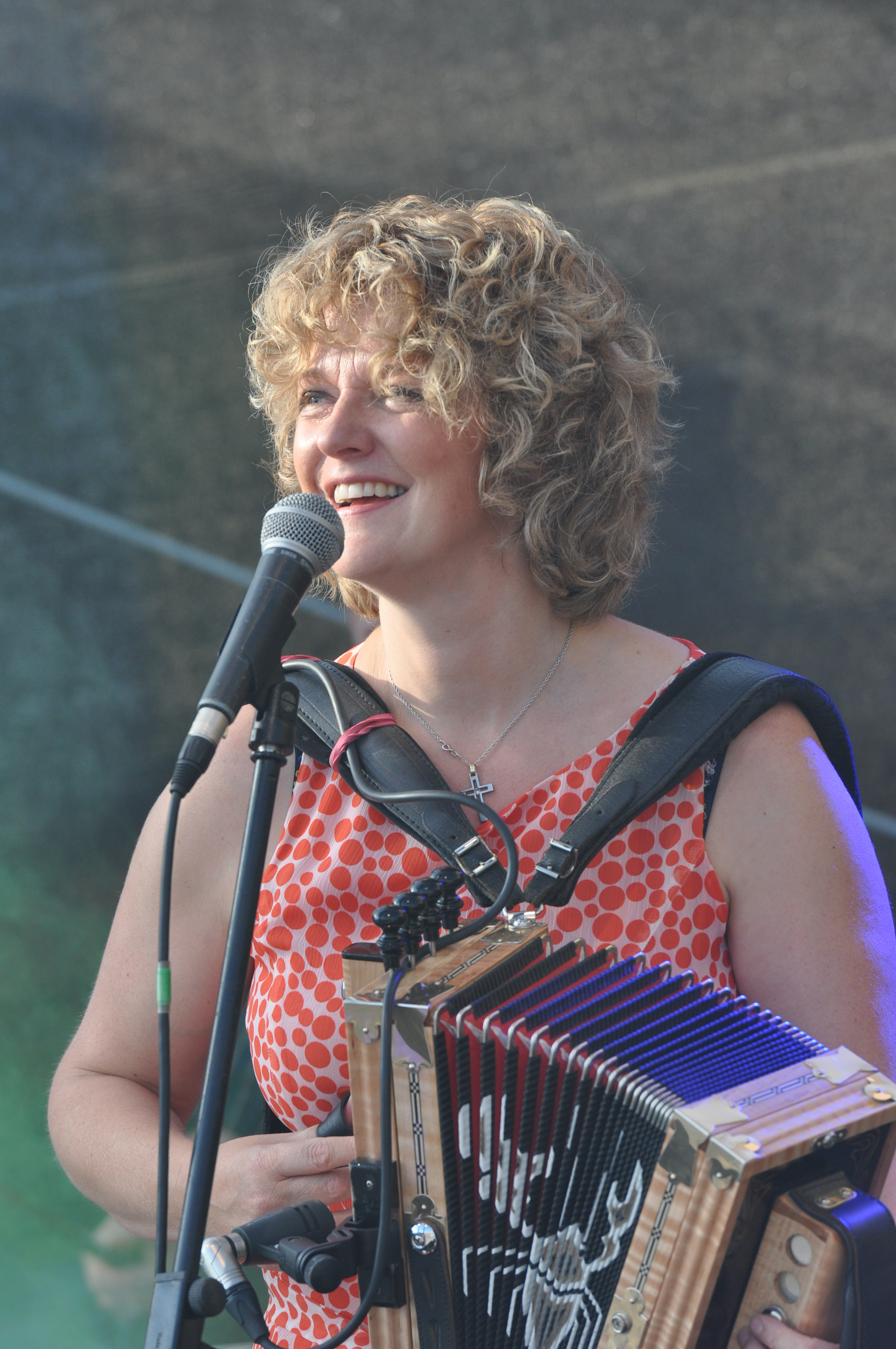 Zydeco Annie + Swamp Cats (D), appearence at the 12th Worls Music Festival "Horizonte" at the fortress of Ehrenbreitstein, Koblenz (Germany)